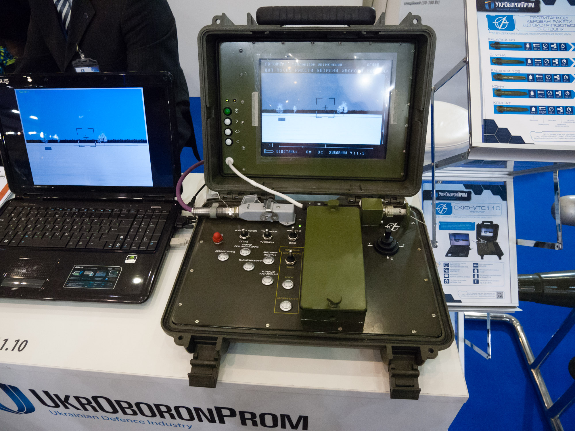 Skif - UTS 1.1 training module (Ukraine)